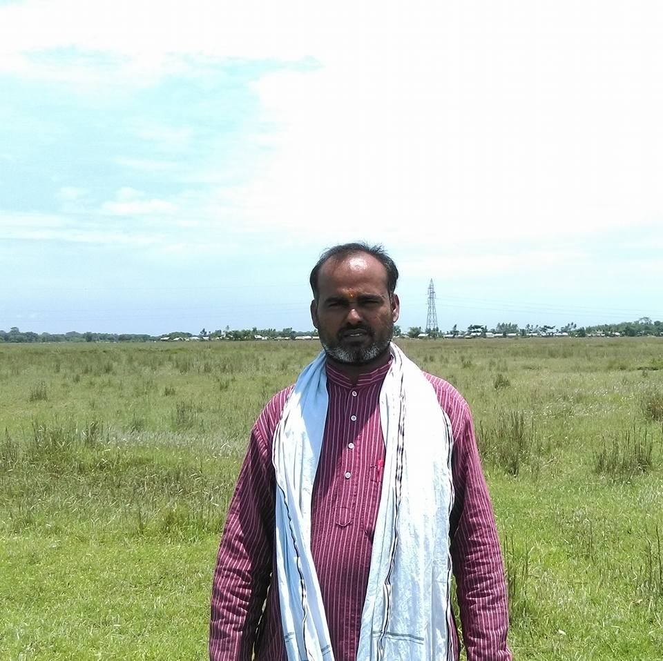 Rajeev Jha while visiting crop area of his constitution